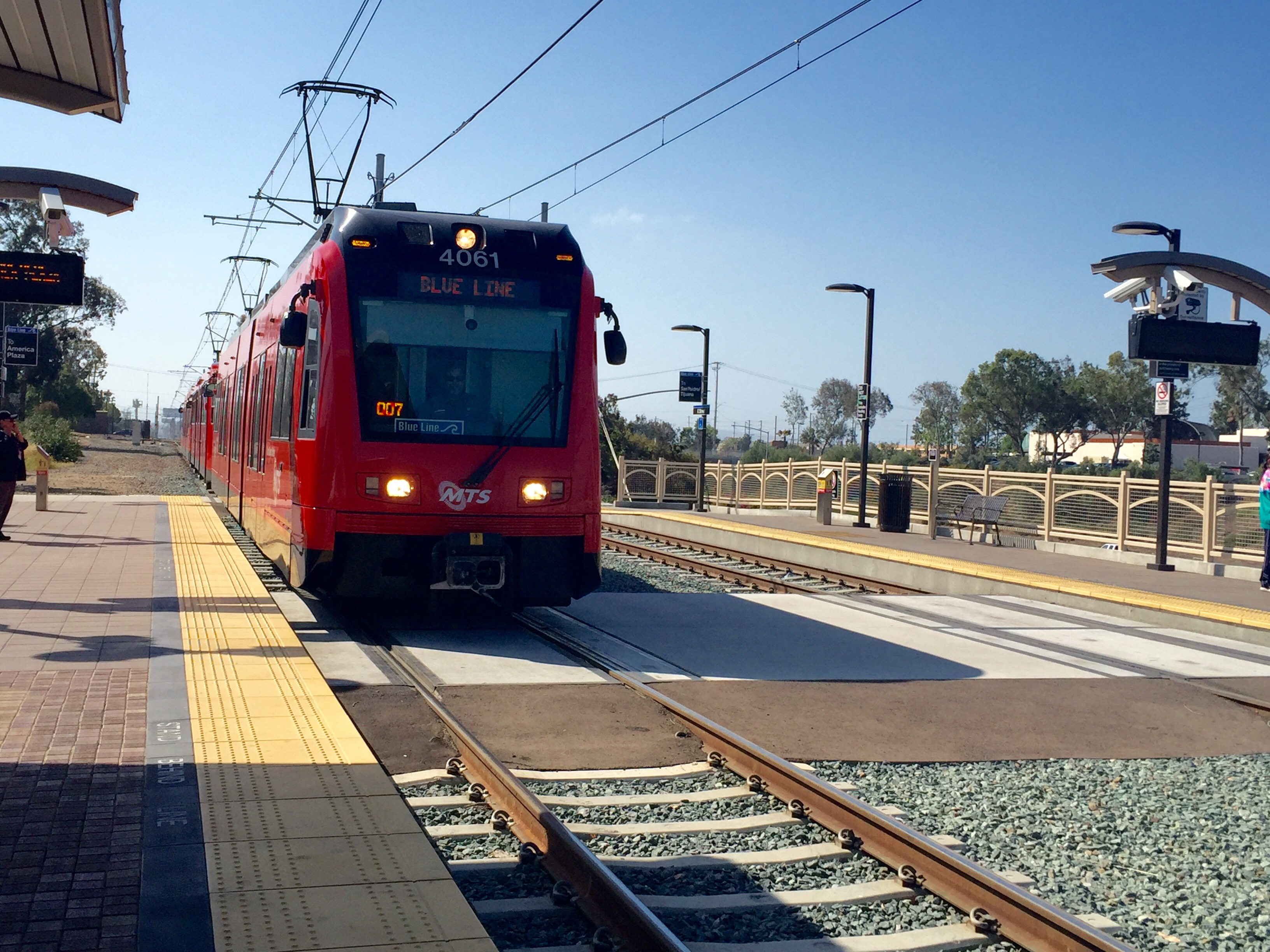 Blue Line trolley arriving at E Street Station of San Diego Trolley.